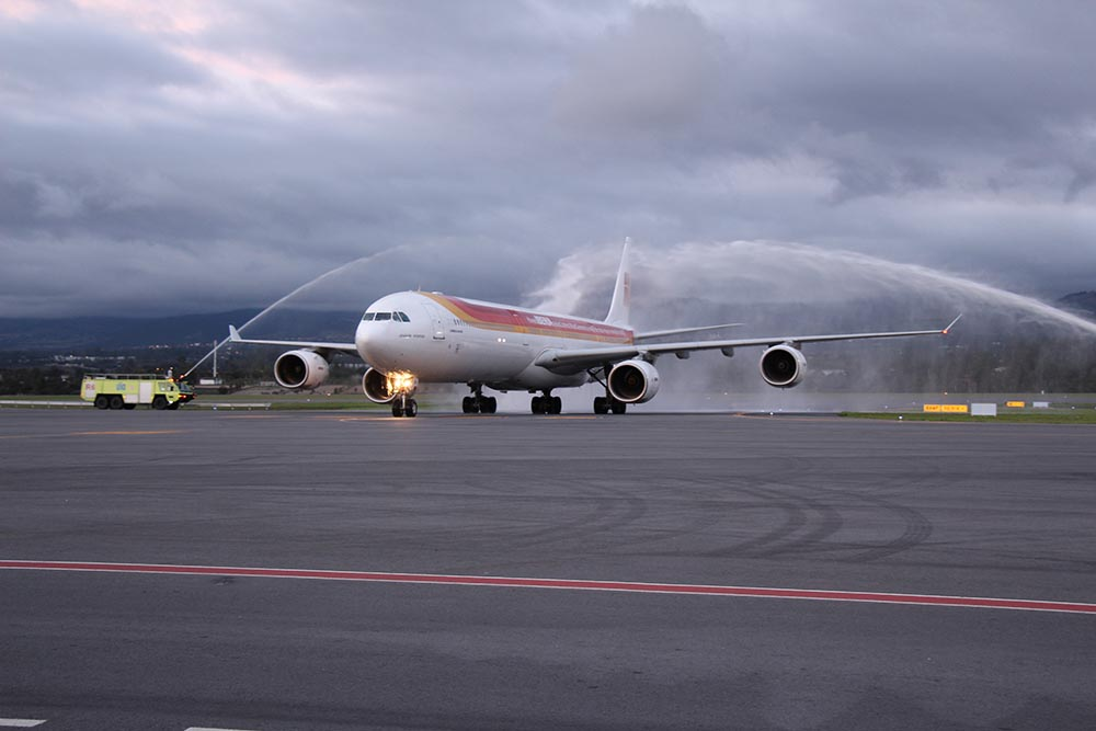 Iberia Airbus 340-600 aircraft on its inaugural flight to Quito - Mariscal Sucre International Airport from Barajas on the 28th of October, 2013. Was the first transatlantic flight of the airport linked to Europe, celebrated with the traditional cannon water salute.